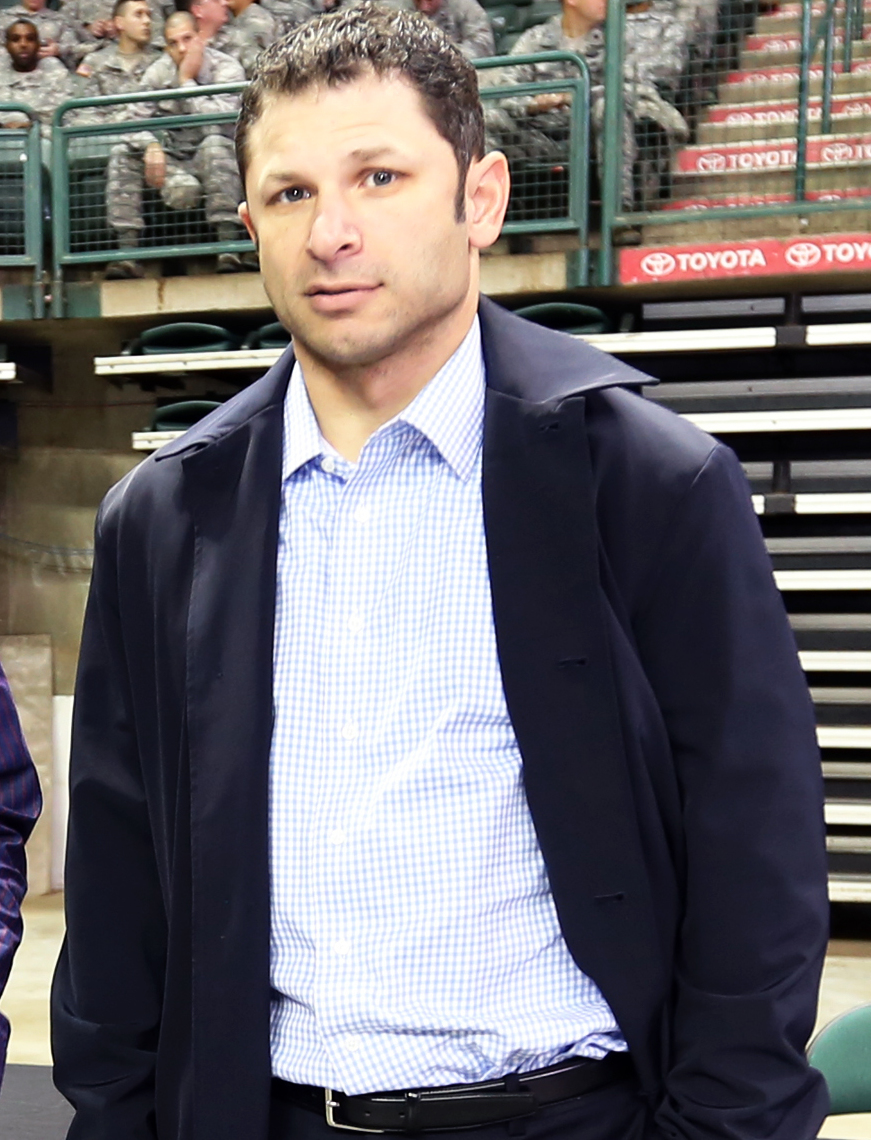 Wayne Chrebet, former wide receiver for the New York Jets, right, was in attendance at the Super Community Blood Drive. More than 200 Soldiers and Airmen from the New Jersey National Guard donate blood Jan. 14, 2014 at the Super Community Blood Drive in the Sun National Bank Center in Trenton, N.J. The blood drive's goal is aimed to alleviate a severe blood shortage in the state. (Photo by Tech. Sgt. Armando Vasquez, NJDMAVA/PA)